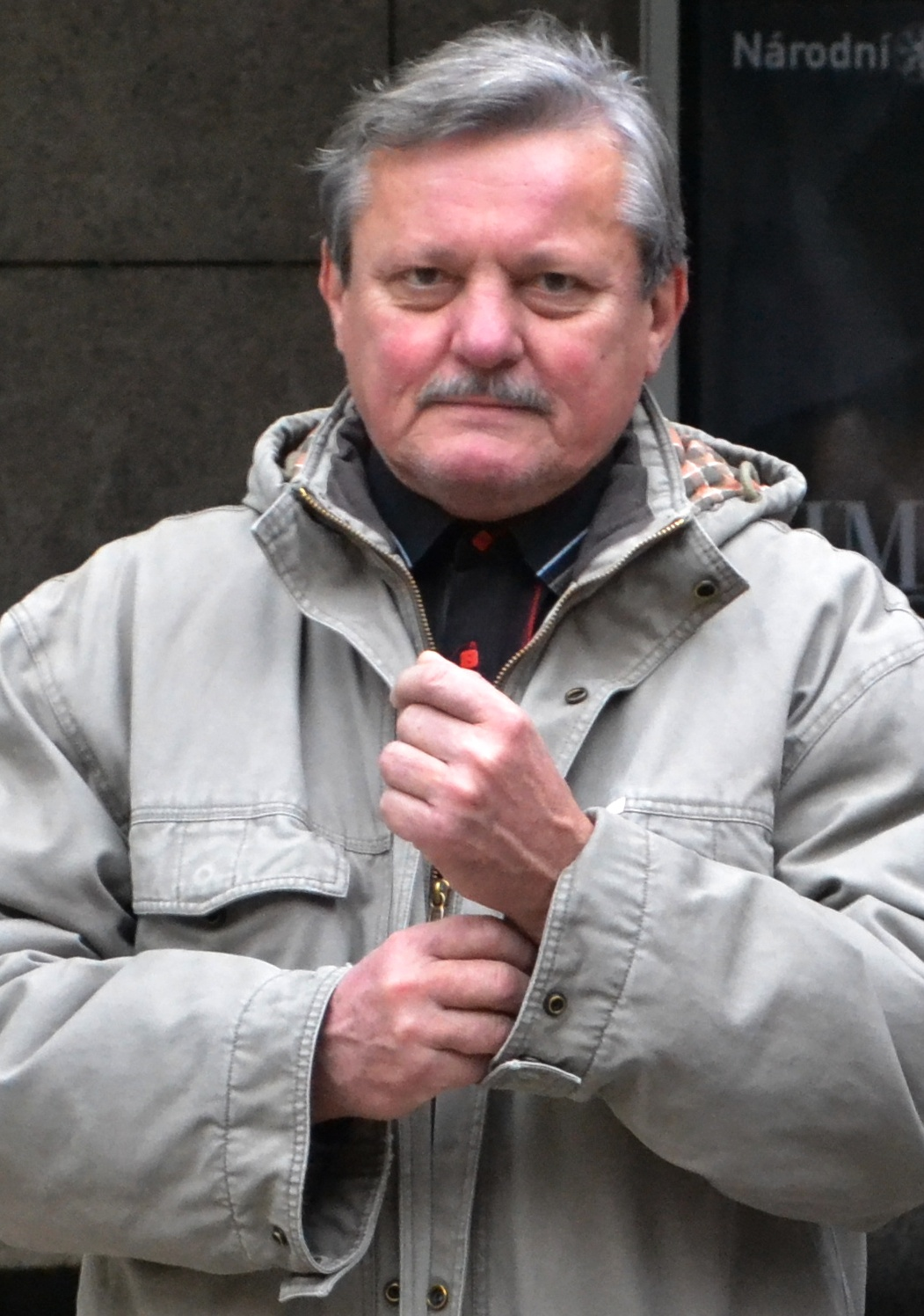 Svatopluk Skopal, Czech actor